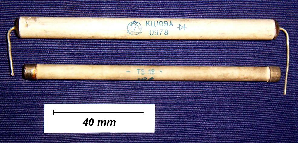 Two Soviet high voltage rectifiers: top - silicon based (manufactured by Izotop Yoshkar-Ola), bottom - selenium based